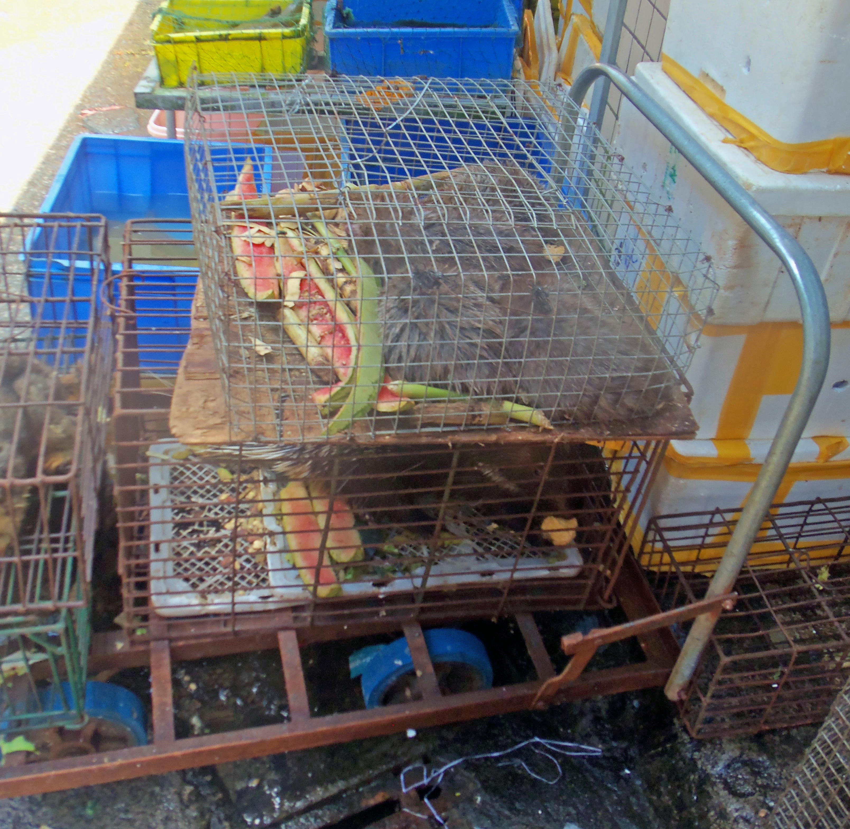 Some type of quilled rodent in a cage outside a wet market in Shenzhen's Luohu District.